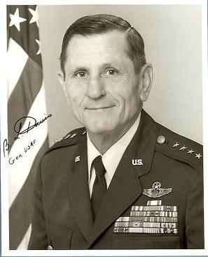 GEN Bennie L. Davis, USAF